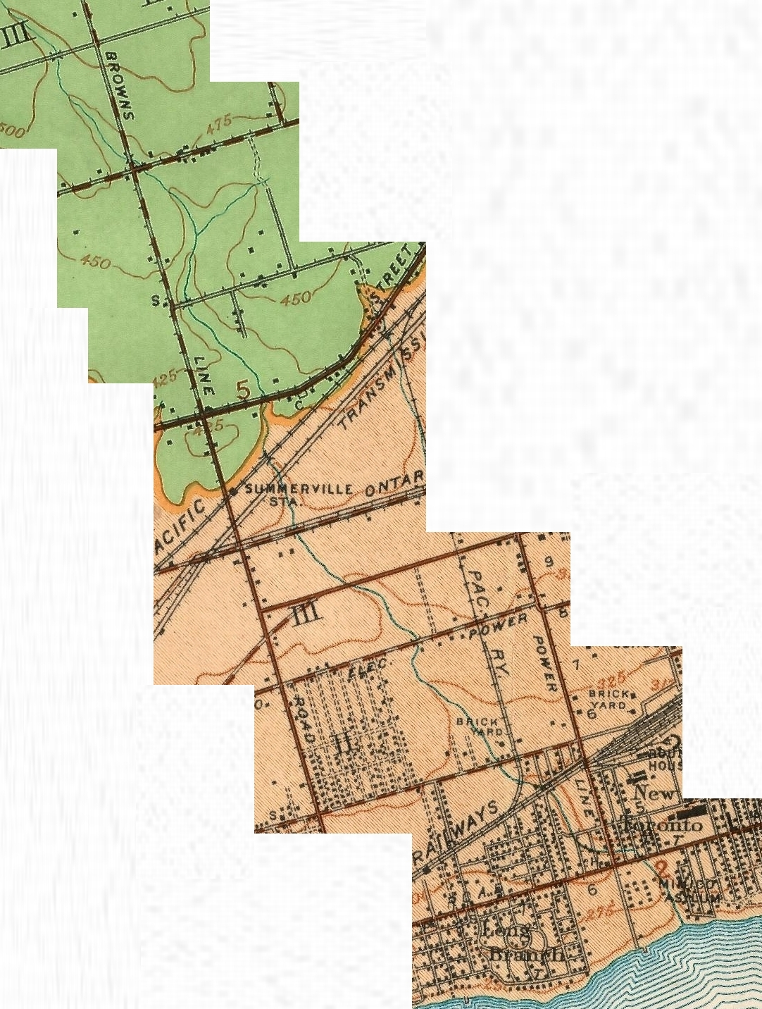 Jackson Creek was a creek in Etobicoke with headwaters near Bloor and the Westway, and its mouth on Lake Ontario near 11th street.